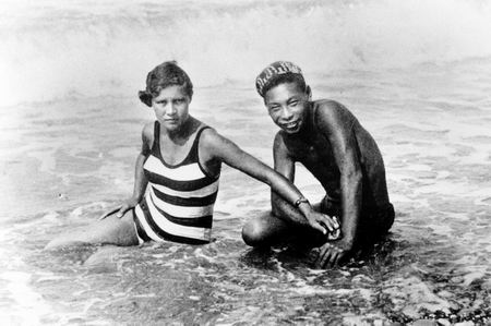 Faina and Chiang Ching-kuo in Soviet Union.